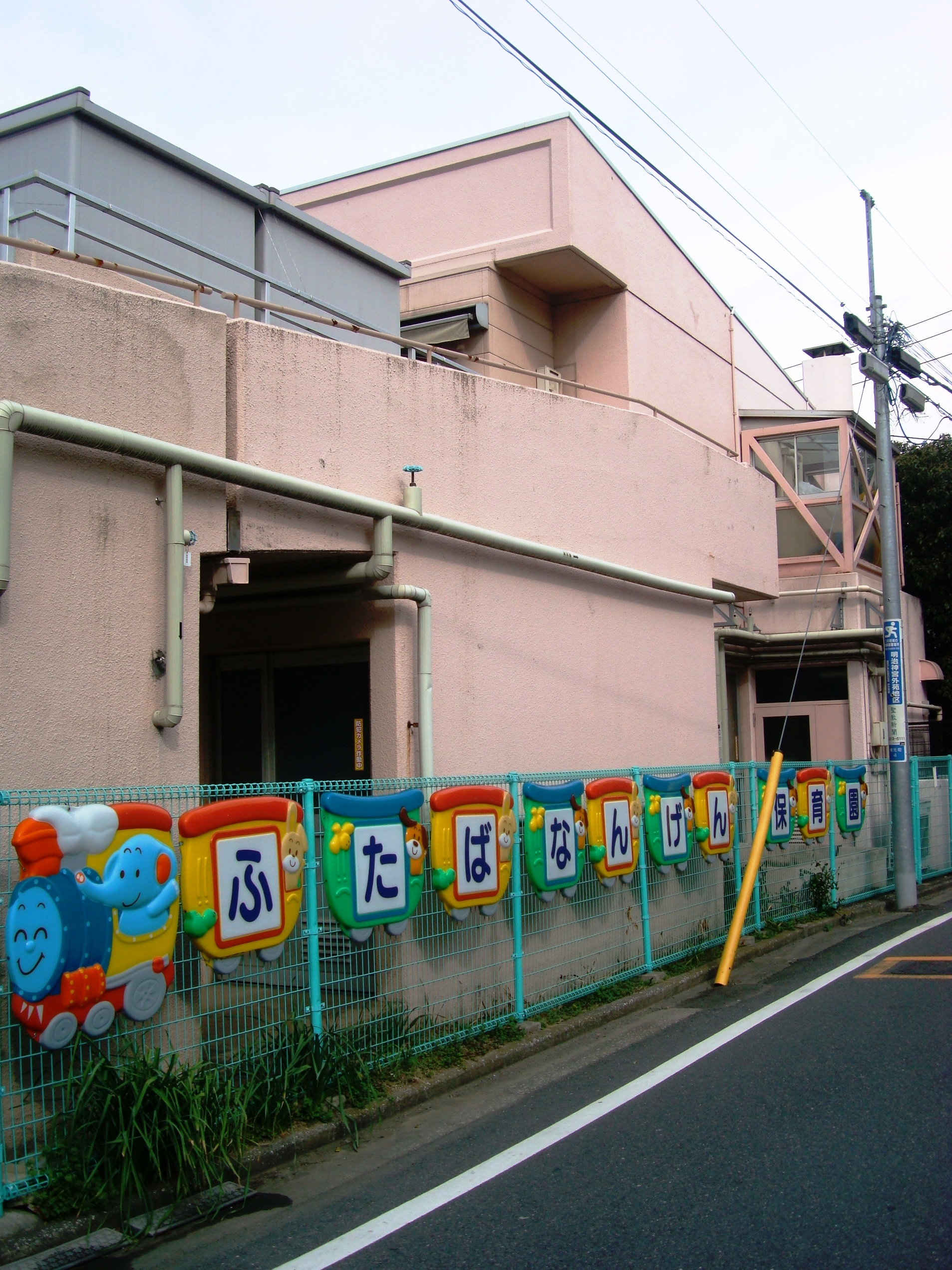 Futaba Nangen Nursery, Minami-motomachi, Shinjuku city, Tokyo